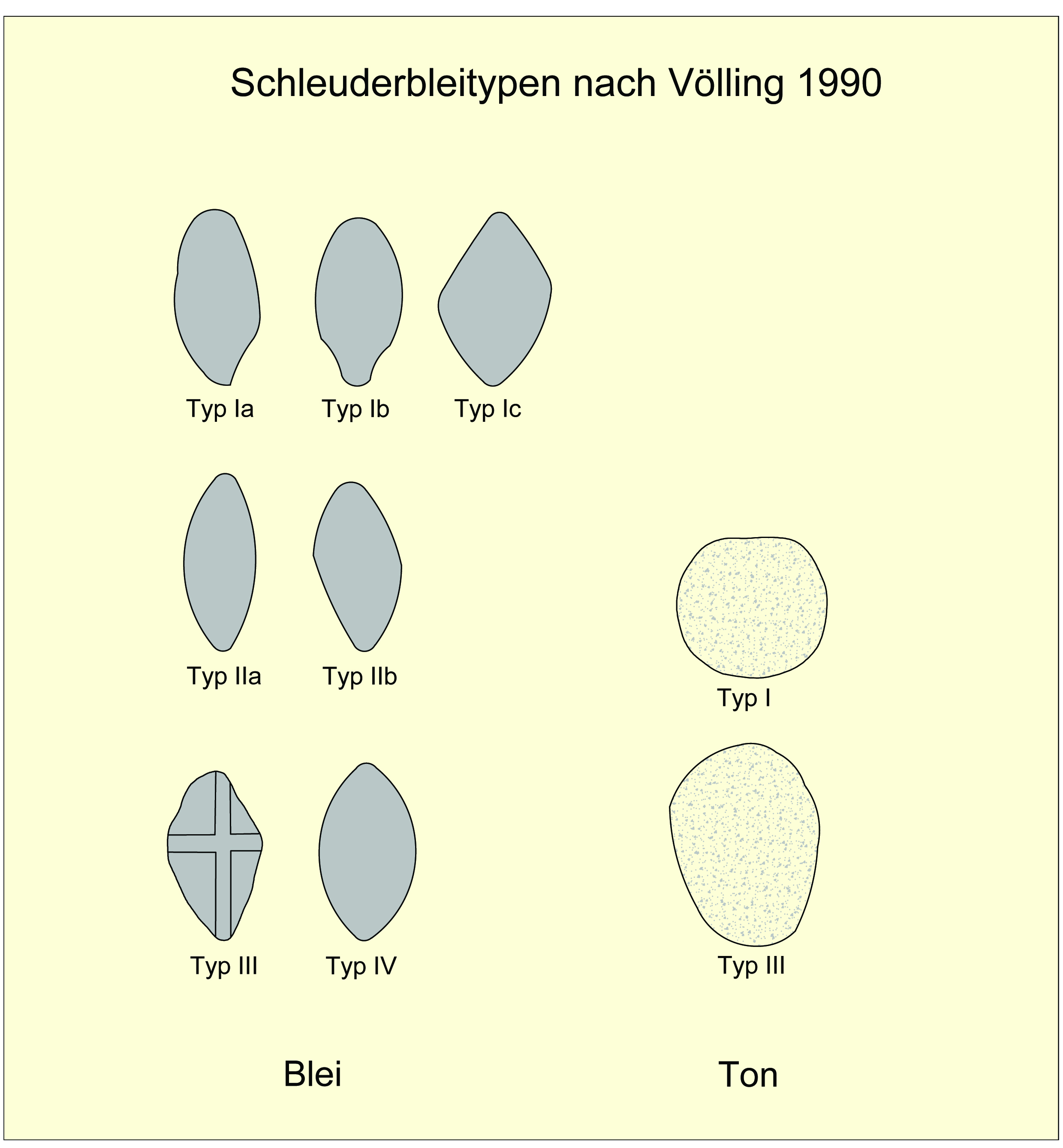 Typs of roman glans according to Völling 1990